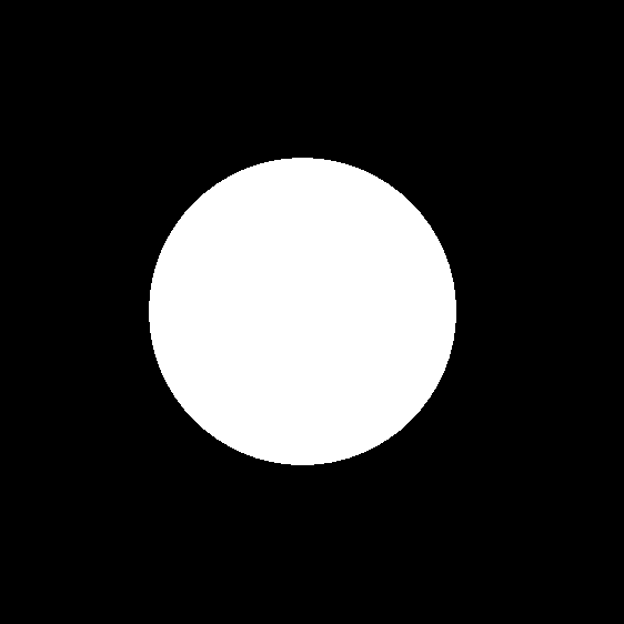 Low Pass Butterworth Checkerboard